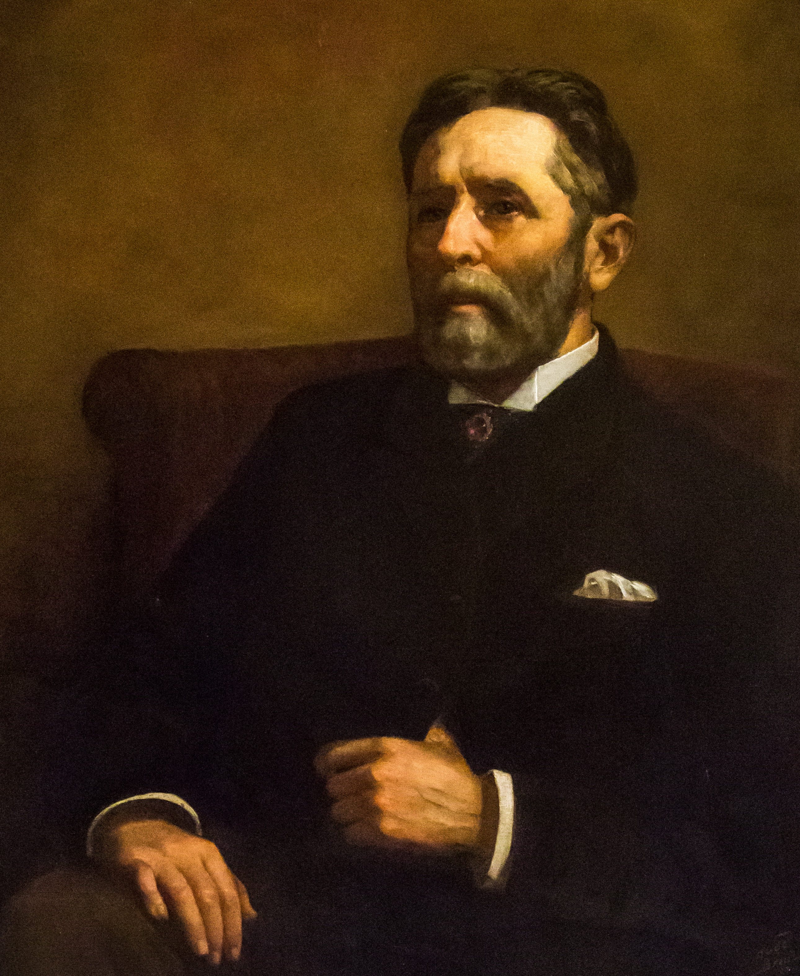 Henry Howard (1826-1905)